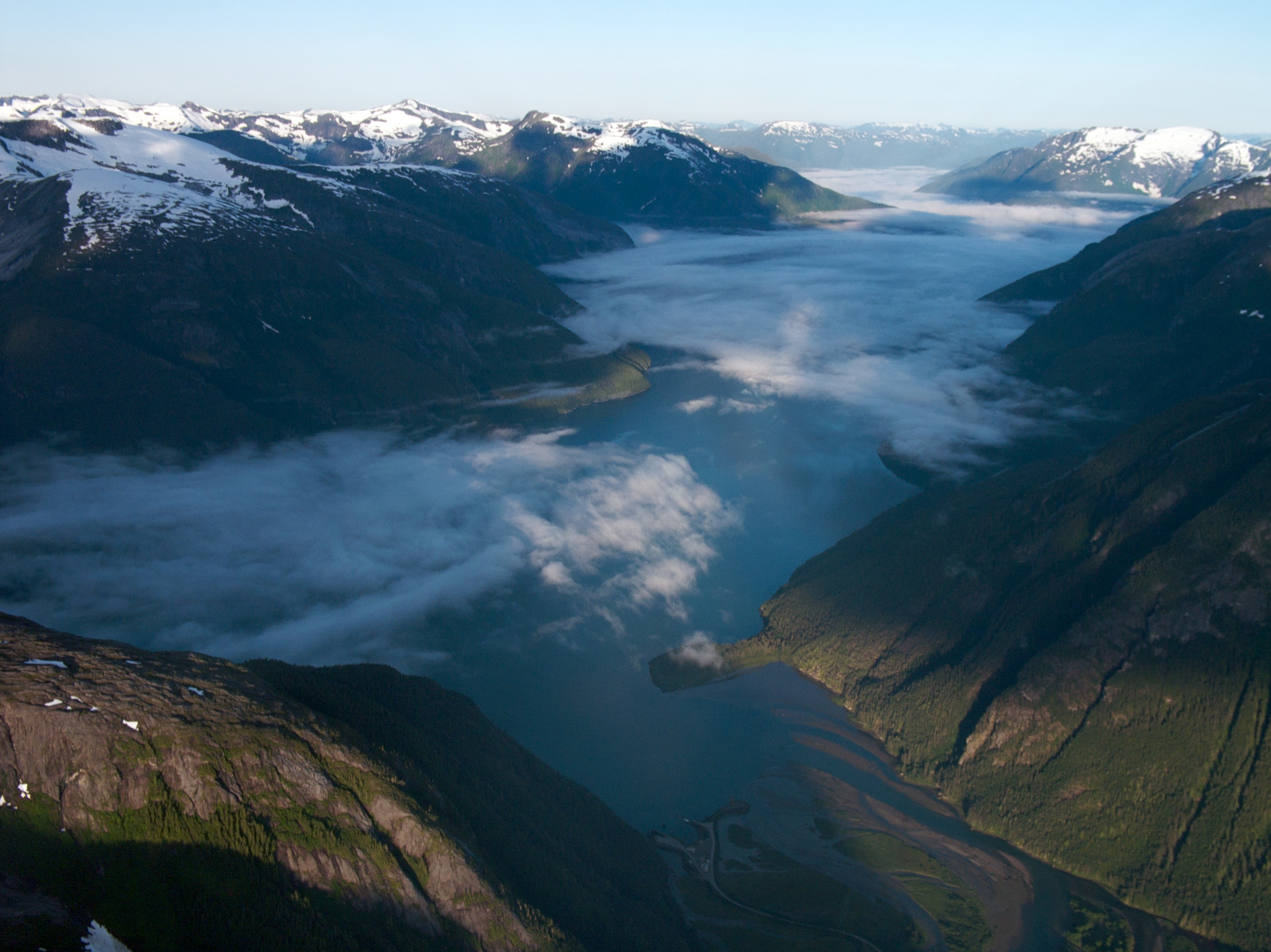 The Gardner Canal on British Columbia's north coast, near the village of Kemano